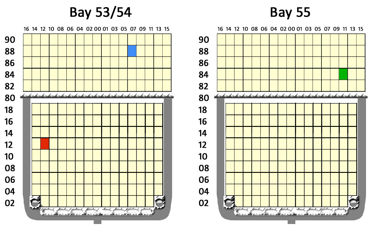 Storage system for containersd on a container ship.